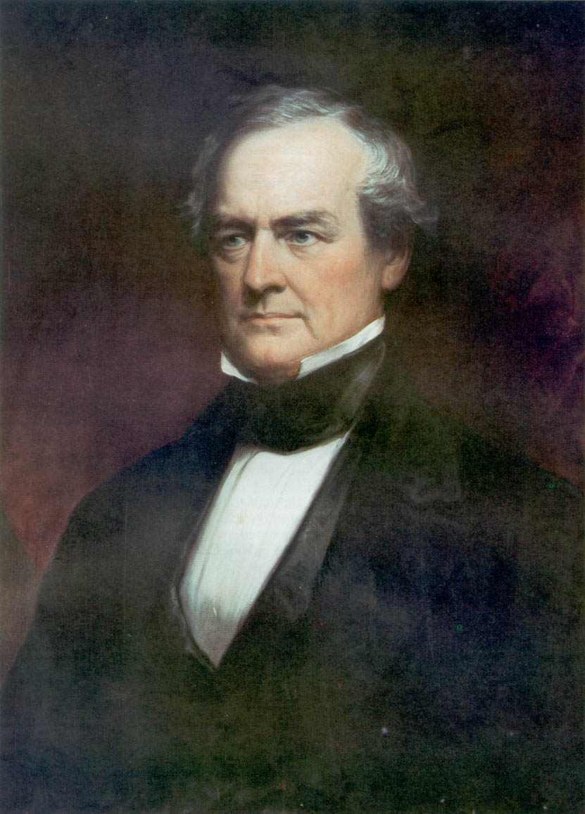 George W. Crawford (1798–1872), 21st United States Secretary of War. Oil on canvas, 29½" x 24½".